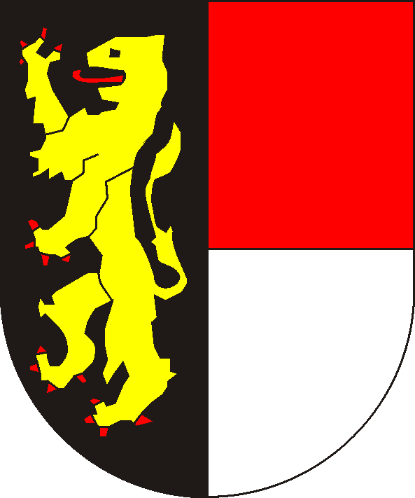 coats of arms of the bishop of Gurk